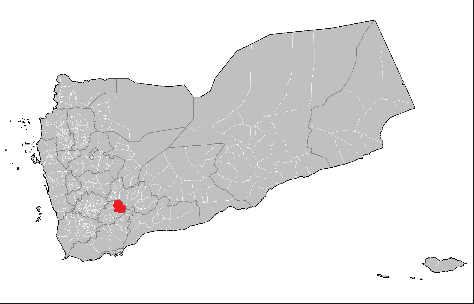 A locator and identifier of the Al Wade'a District in Yemen